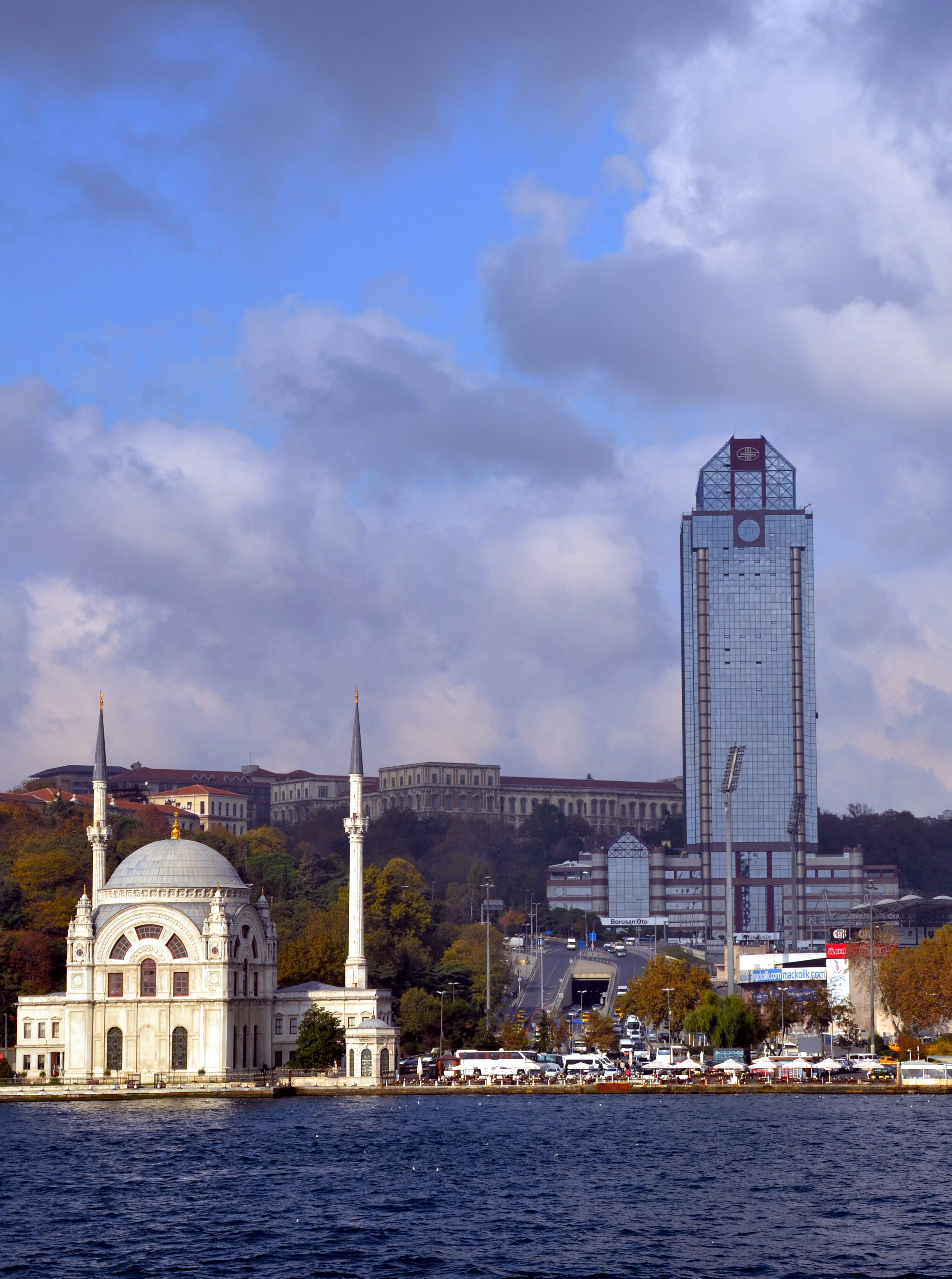 Dolmabahçe Mosque and The Ritz-Carlton Hotel Istanbul Turkey